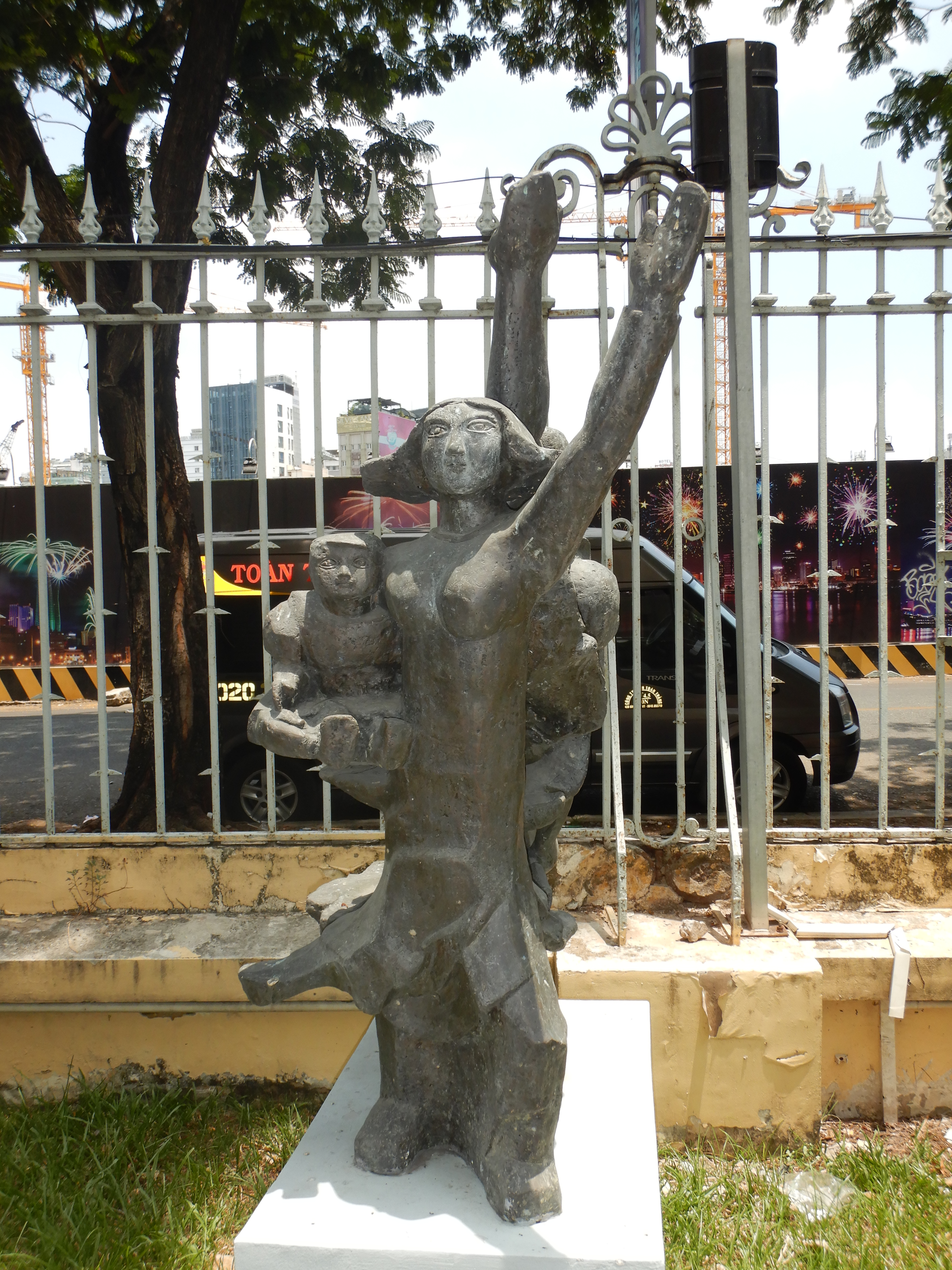 Concrete statue "Victory" in Ho Chi Minh City Museum of Fine Arts. It was made by Mai Chửng (1940 - 2001) in 1972. Dimensions: 45 × 45 × 98 cm.